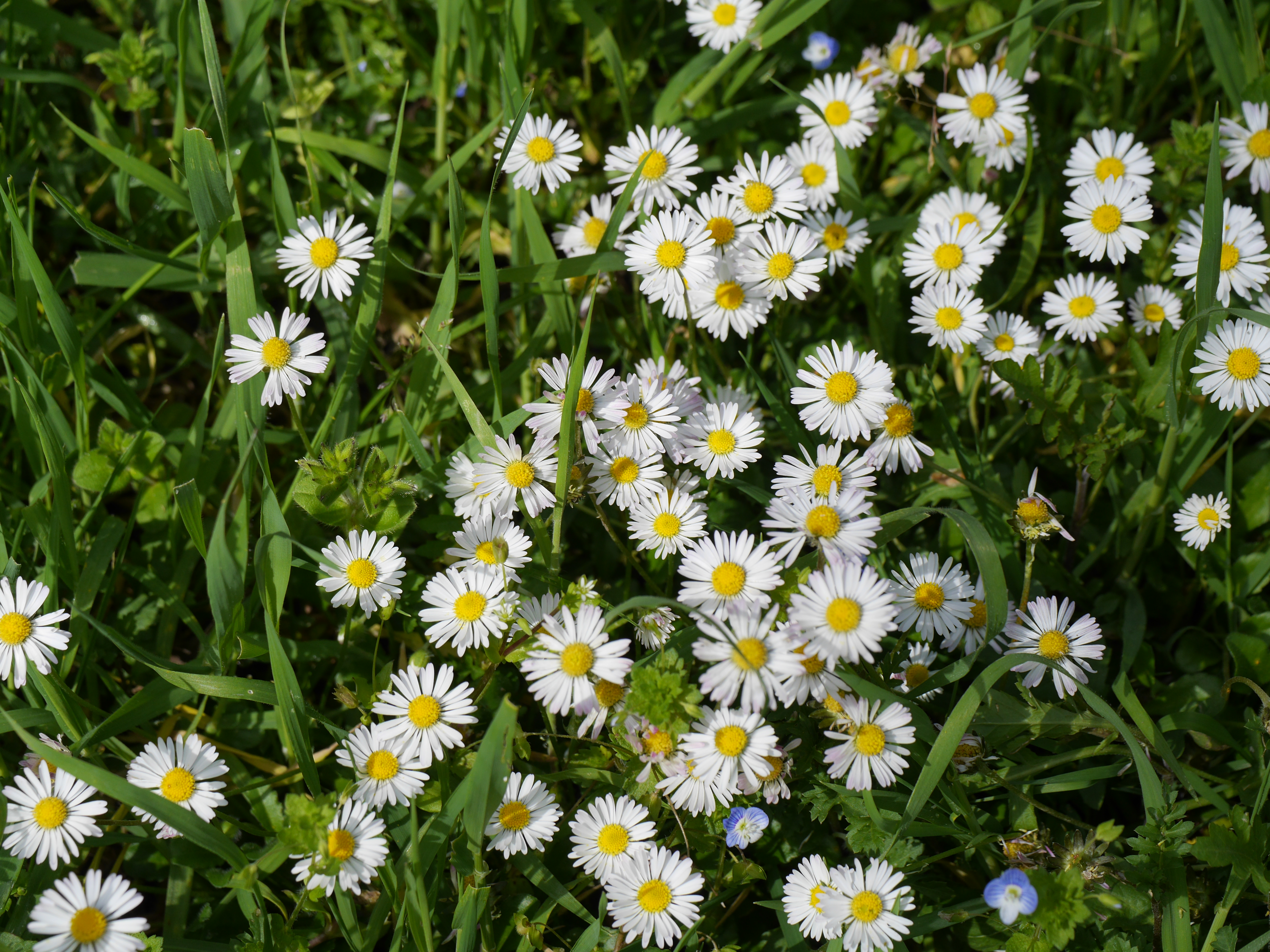 This photo was taken with Panasonic Lumix DMC-GH3 camera, thanks to Panasonic.You can see all photographs in category: Taken with Panasonic Lumix DMC-GH3.